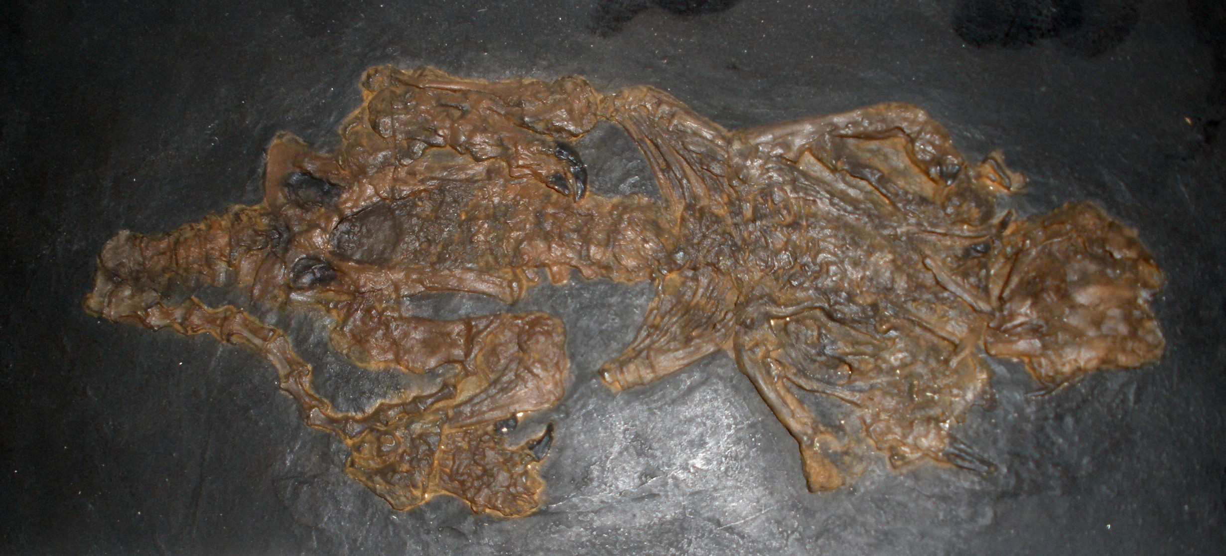 Fossil of Eomanis waldi, an extinct pangolin, in the Museo di Storia Naturale, Milano